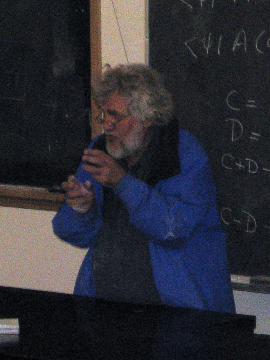 Bill Unruh giving a lecture